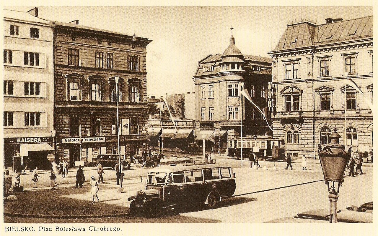 Bolesław Chrobry Square in Bielsko-Biała, Poland in 1937.